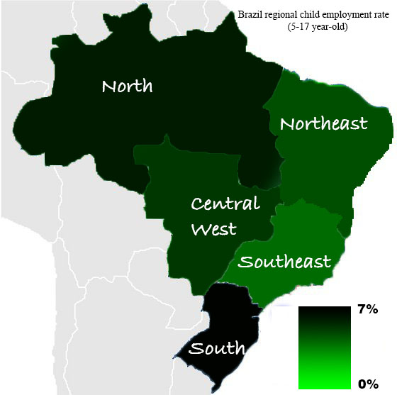 Child employment rate according to region